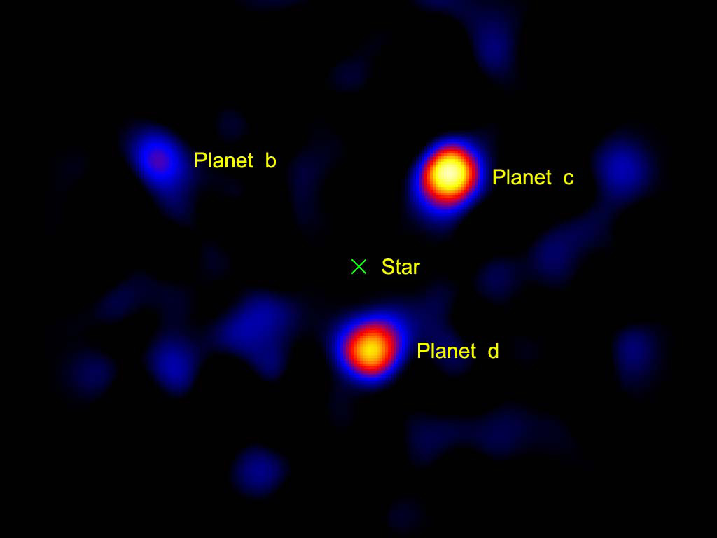 This image shows the light from three planets orbiting a star 120 light-years away. The planets' star, called HR8799, is located at the spot marked with an "X." This picture was taken using a small, 1.5-meter (4.9-foot) portion of the Palomar Observatory's Hale Telescope, north of San Diego, Calif. This is the first time a picture of planets beyond our solar system has been captured using a telescope with a modest-sized mirror -- previous images were taken using larger telescopes. The three planets, called HR8799b, c and d, are thought to be gas giants like Jupiter, but more massive. They orbit their host star at roughly 24, 38 and 68 times the distance between our Earth and sun, respectively (Jupiter resides at about 5 times the Earth-sun distance).